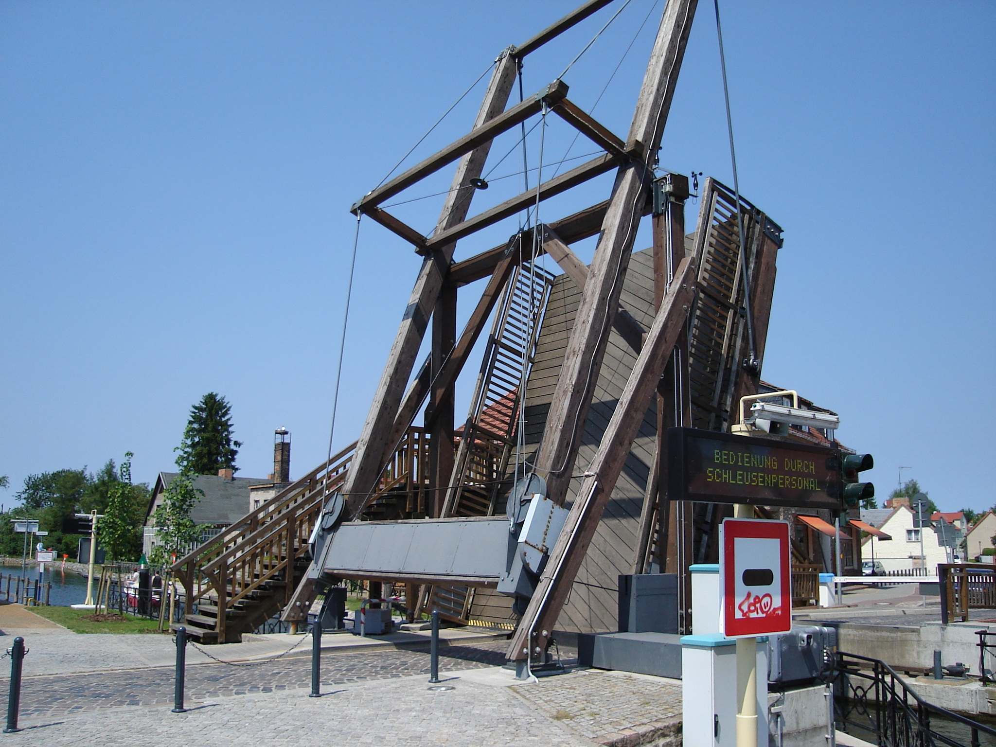 Storkower Kanal in the historical old town of Storkow. The drawbridge was built in 2000/01 instead of a steel-drawbridge from the year 1919. The canal connects the Großer Storkower See with the Wolziger See. Storkow is a town in the District Oder-Spree, Brandenburg, Germany. Note: Contrary to the file-name the picture does not show a Klappbrücke (german for: bascule bridge), but a drawbridge.